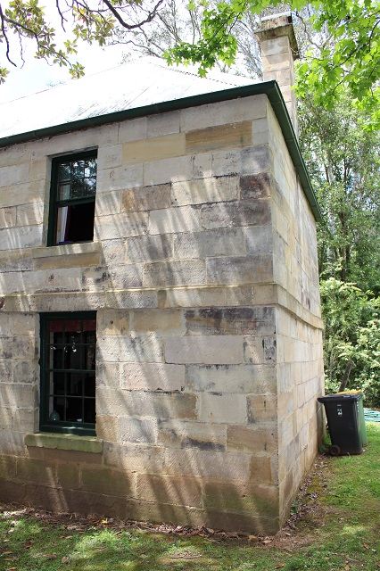 Goldfinders Inn: View of the inn building